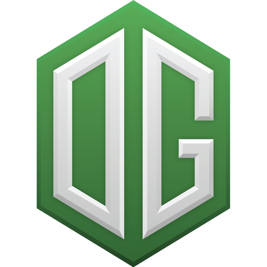 Logo of OG eSports